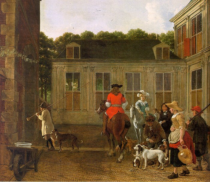 Hunting party in the Courtyard of a Country House.